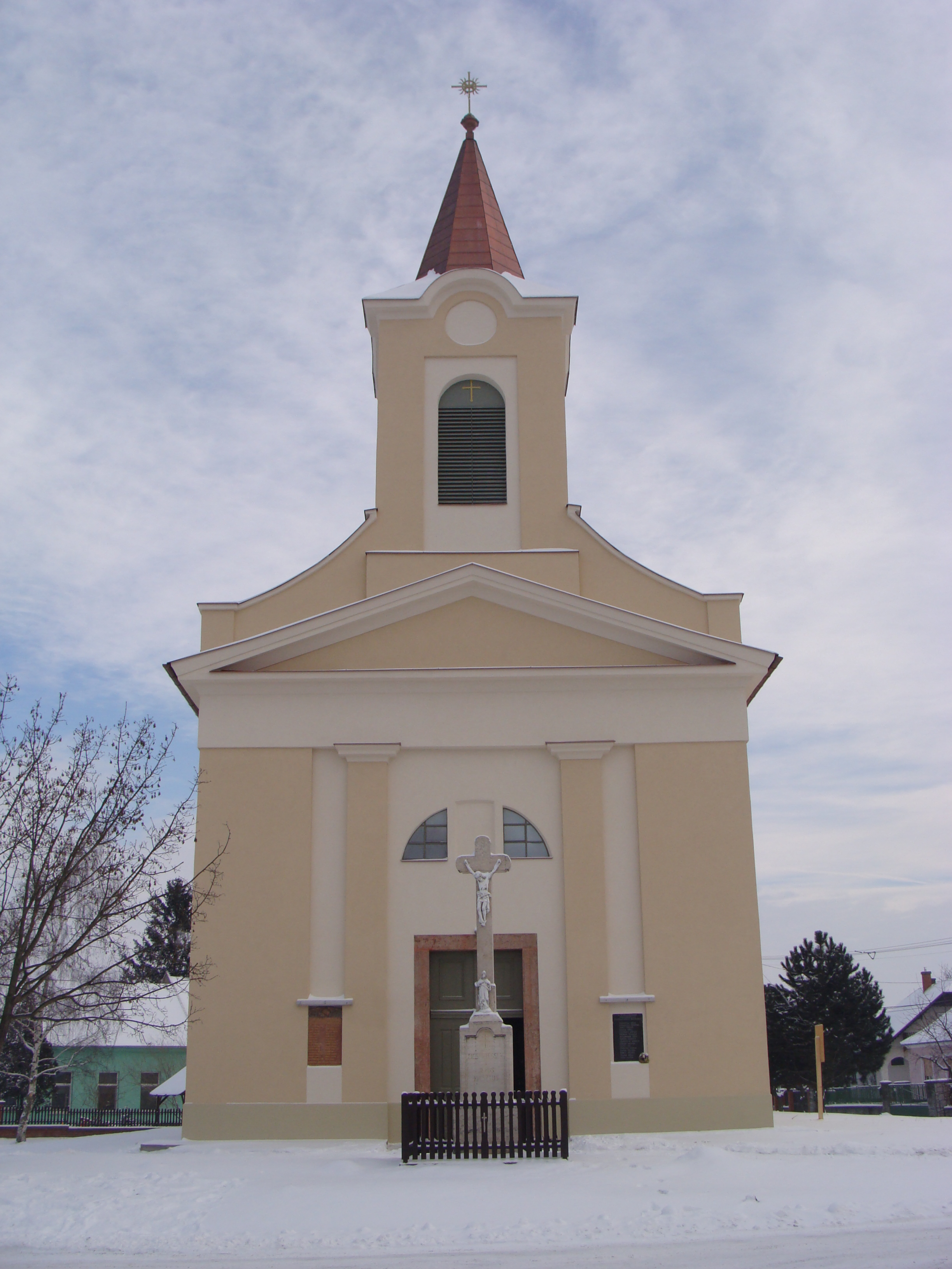 Chatolic church of Dunaszentpál, Hungary